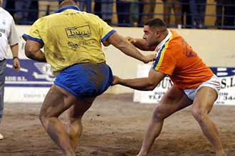 This photo shows a round on Lucha Canaria (Canarian Wrestling). Source: Own creation with my digital camera.